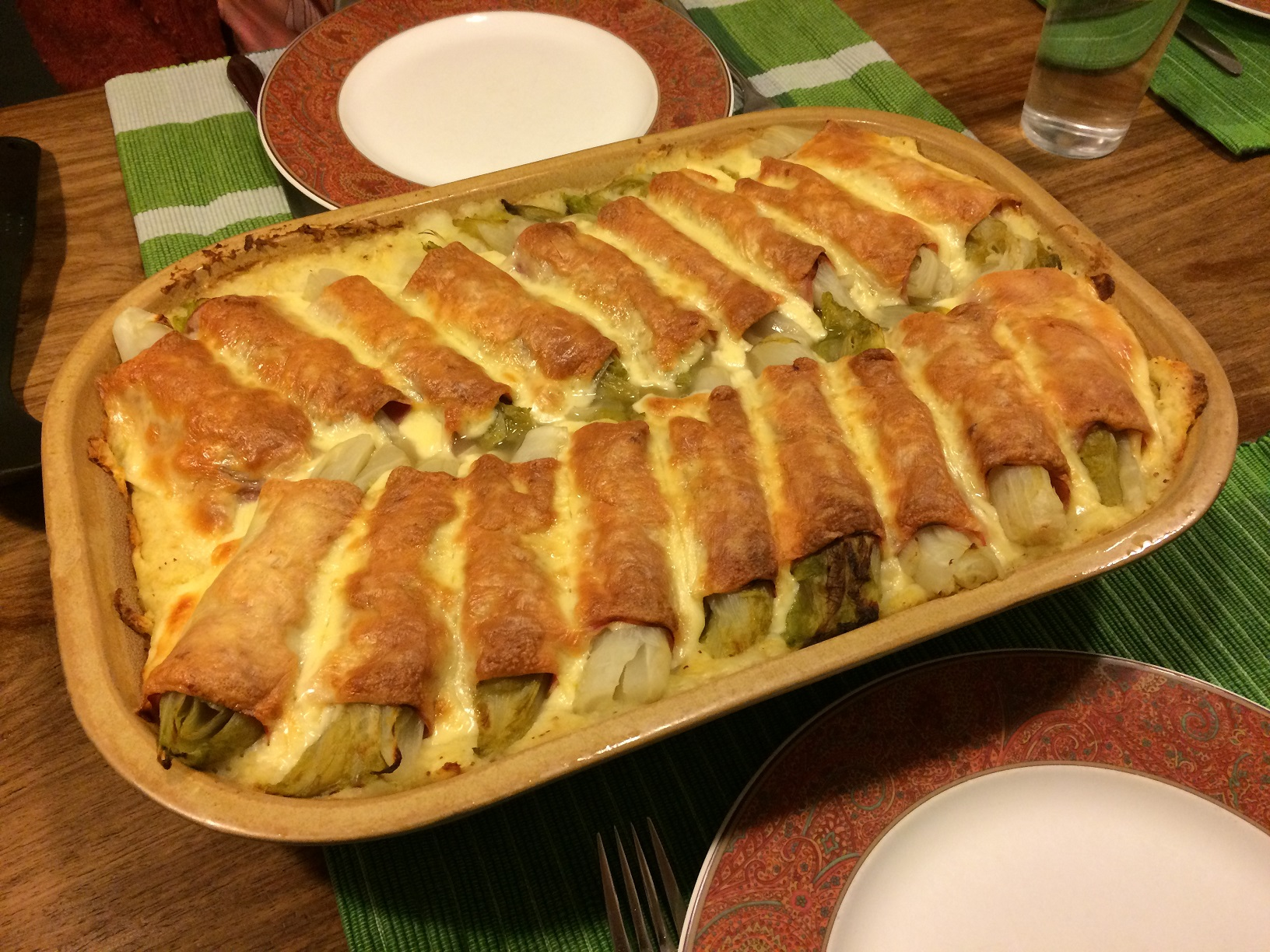 Oven dish with chicory, ham and cheese.